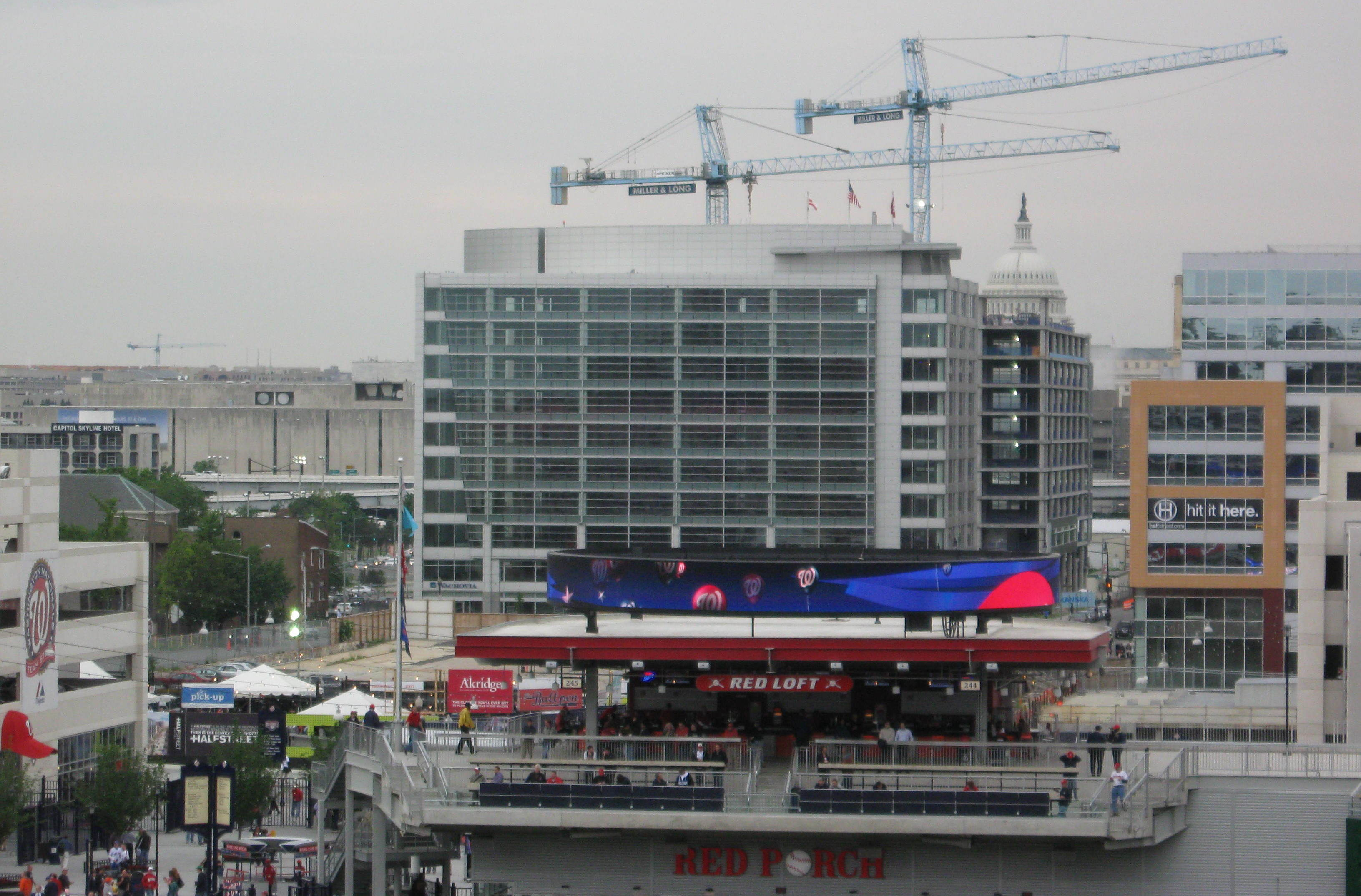 Description View of the Capitol from Nationals Park in DC Date30 June 2010, 19:22 (UTC)SourceI (Airtuna08 (talk)) created this work entirely by myself.AuthorAirtuna08 (talk) 19:22, 30 June 2010 . . Airtuna08 . . 3,264×2,448 (879 KB) View of the Capitol from Nationals Park in DC